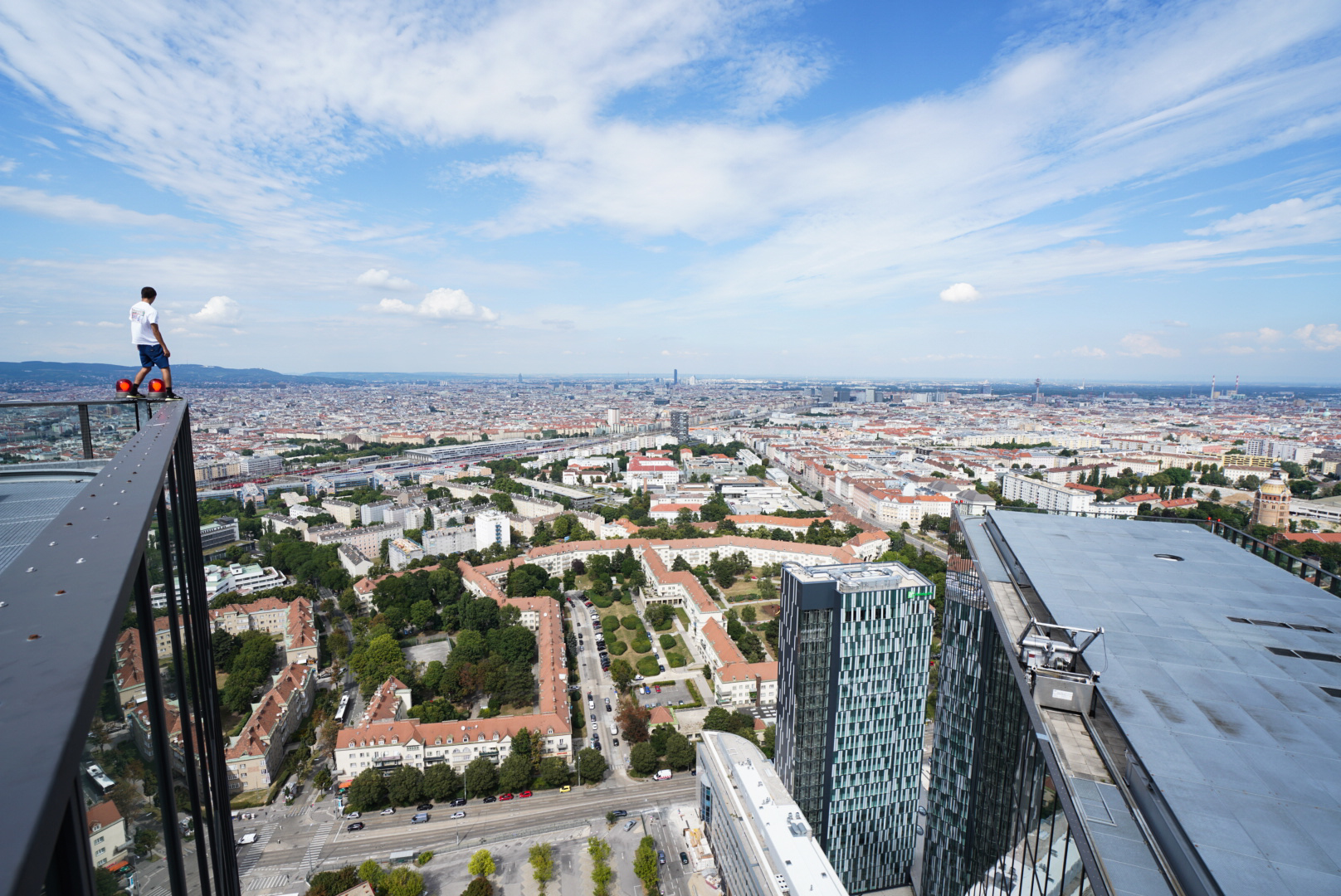 A picture of a rooftopper on the roof of the bigger Twin Tower in Vienna, Austria.